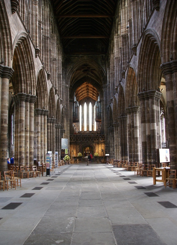 Glasgow Cathedral, Glasgow, Scotland - in the nave looking east towards the pulpitum and the choir